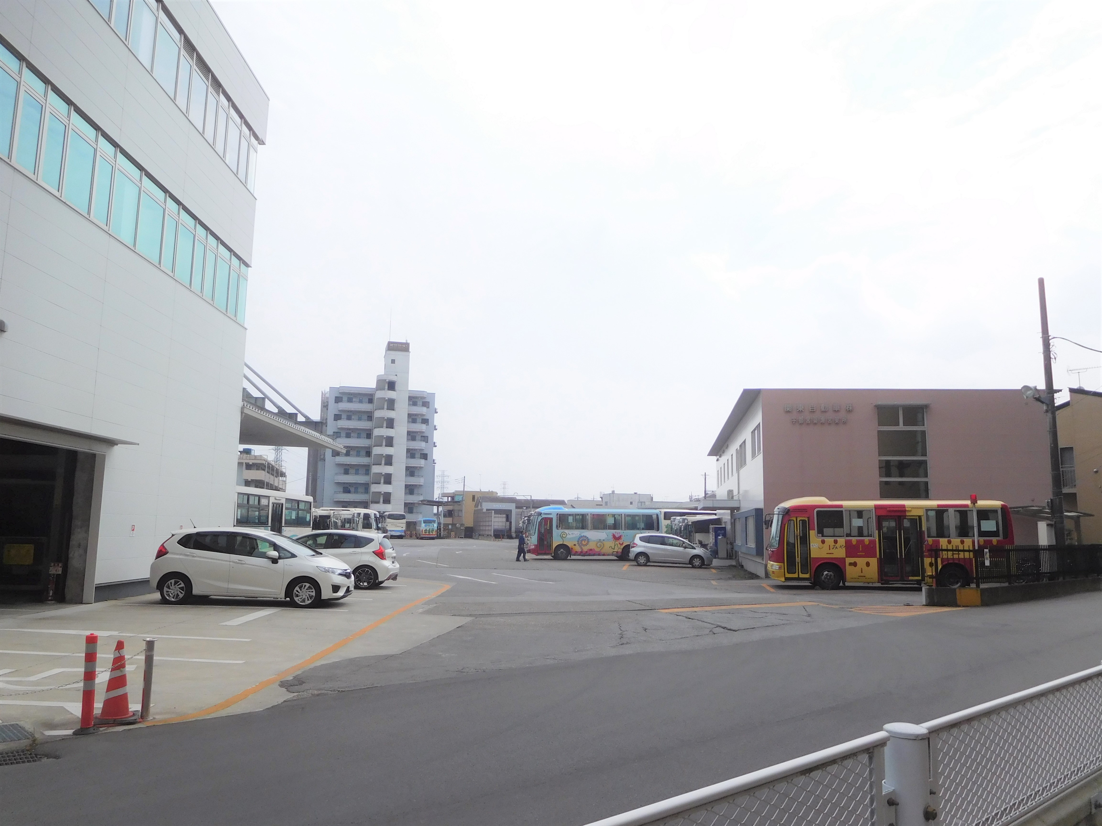 This is Kanto Bus Yanaze Service Station in Utsunomiya, Tochigi, Japan. Building on the left side is the headquarters of Kanto Bus.